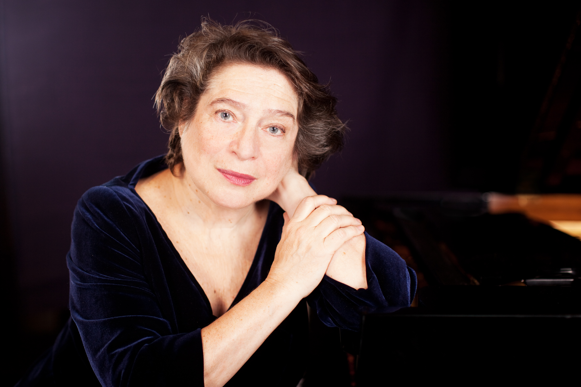 Elisabeth Leonskaja, classical pianist from Russia